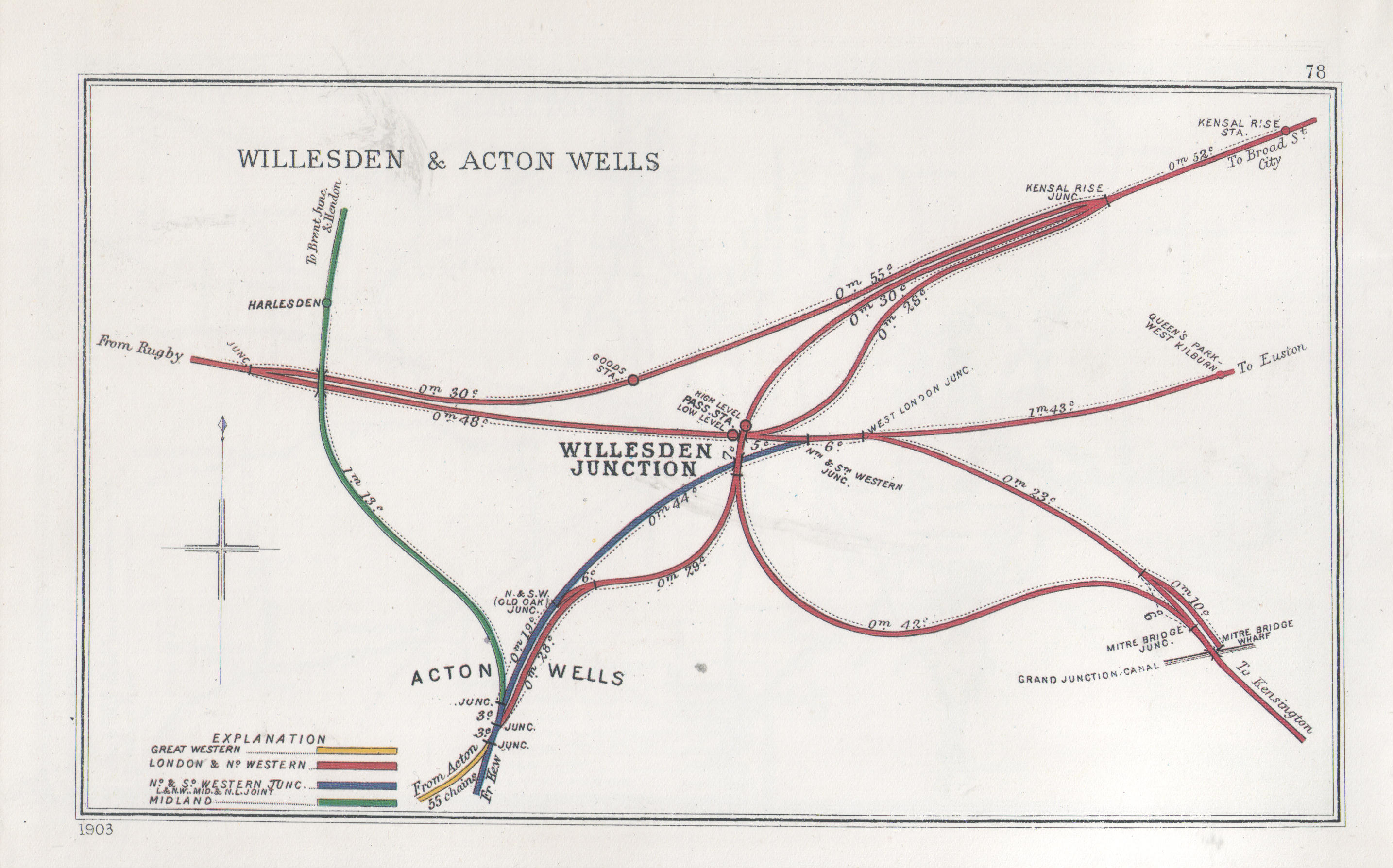 Pre Grouping railway junction around Willesden & Acton Wells